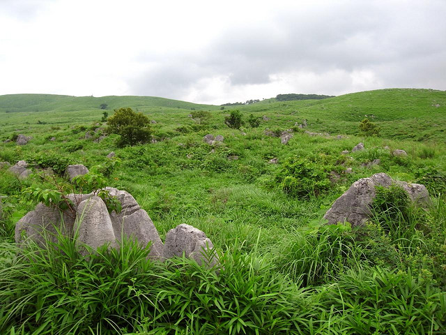 Akiyoshidai Quasi-National Park